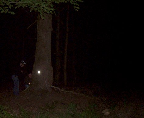 Night geocache. Only in darkness reflectors are visible when illuminated by flash light.